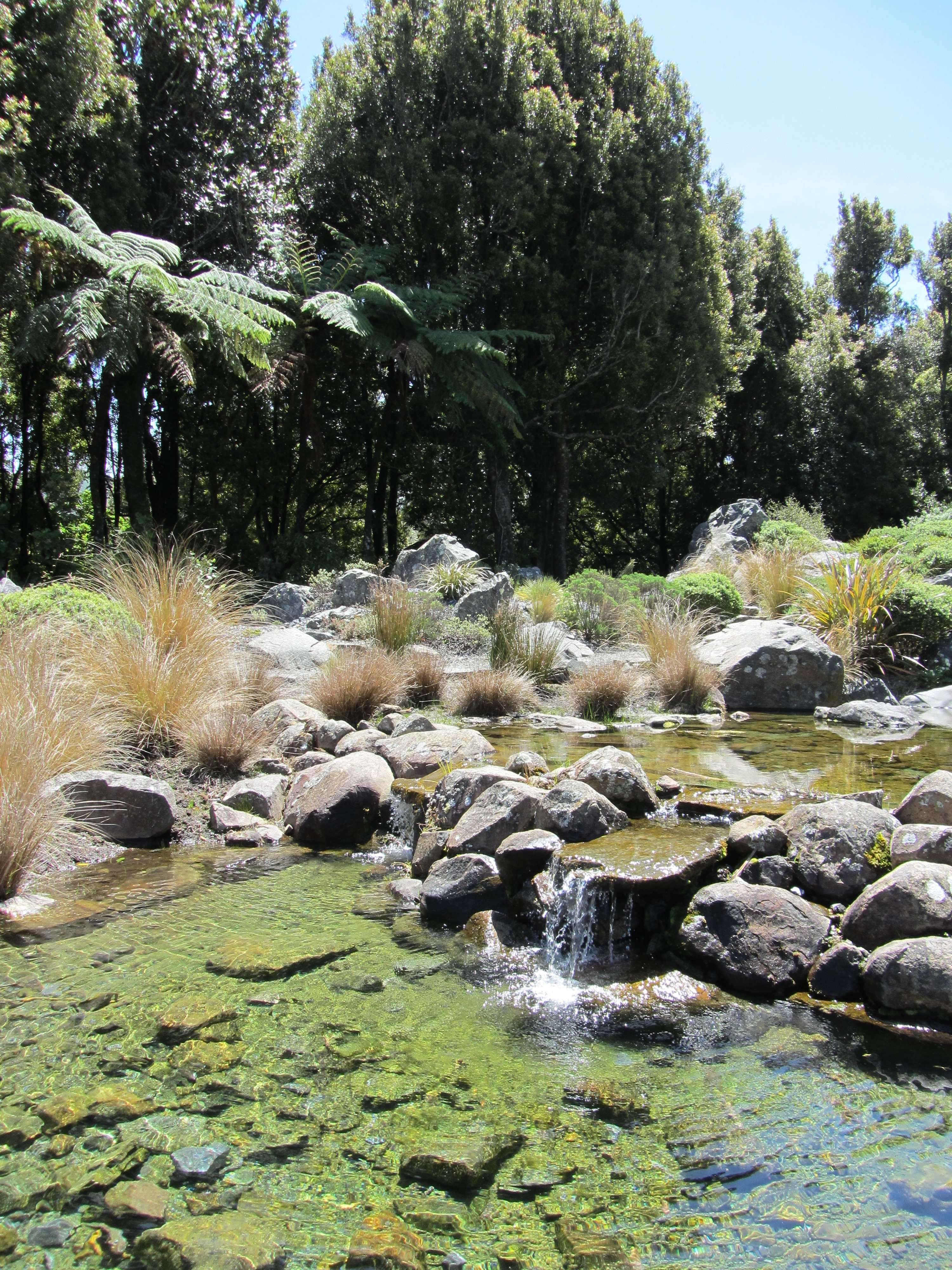 Otari Native Botanic Garden